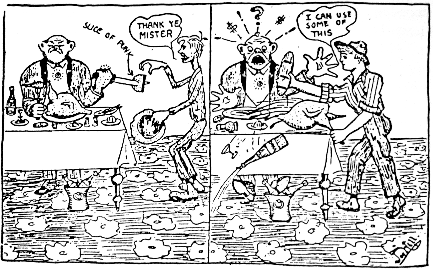 Cartoon of worker helping themselves to food off a capitalists plate